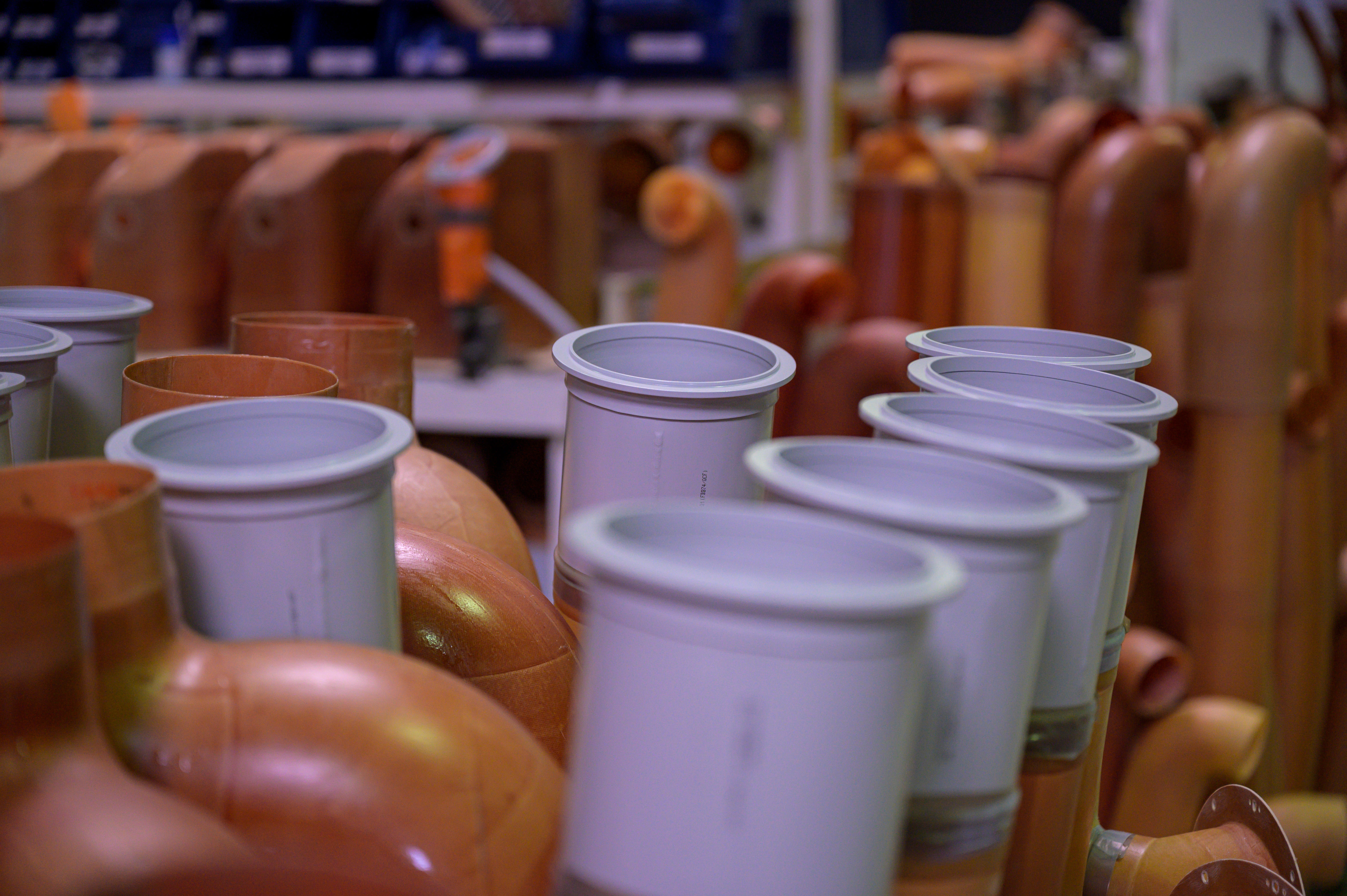 Composite pipes for Aerospace